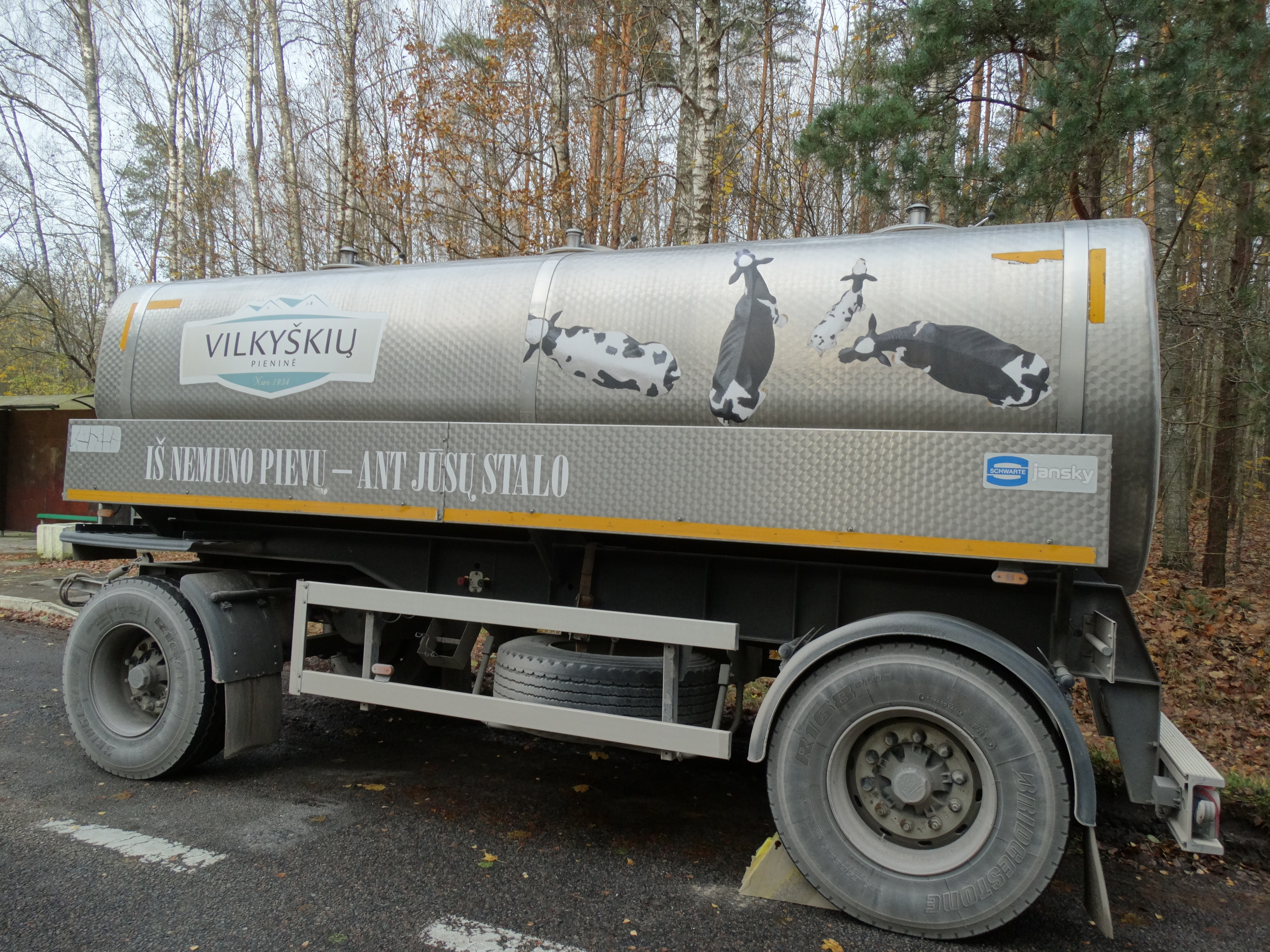 Milk company trailer, Vilkyškiai, Pagėgiai Municipality, Lithuania